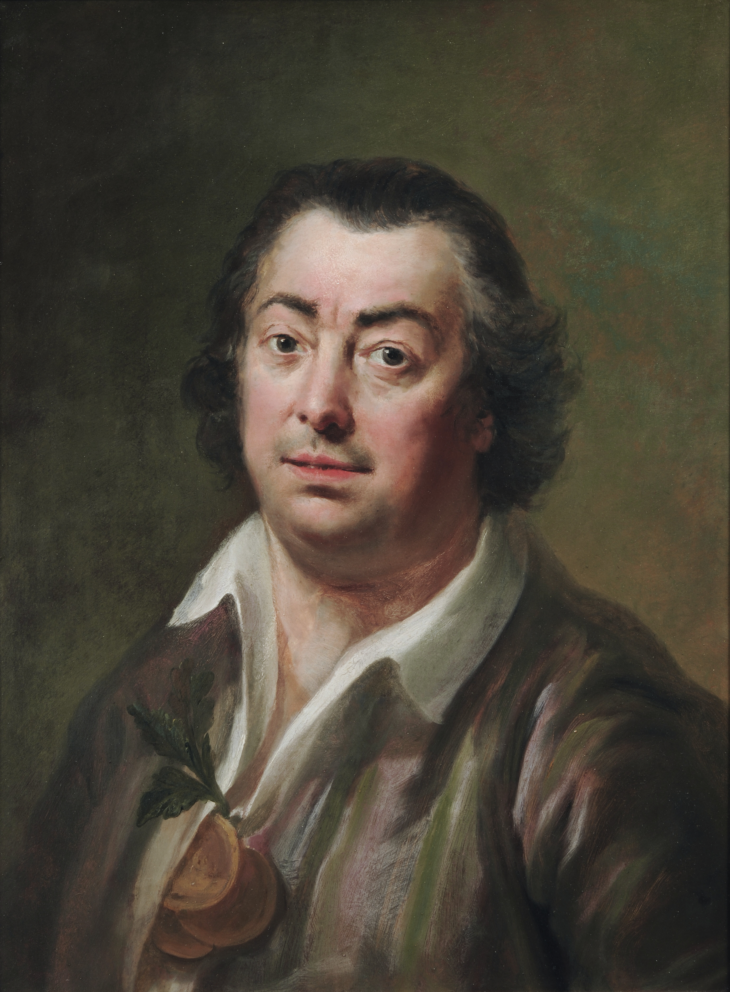 Johannes le Francq van Berkhey oil on panel 56,5 × 42,5 cm 18th century